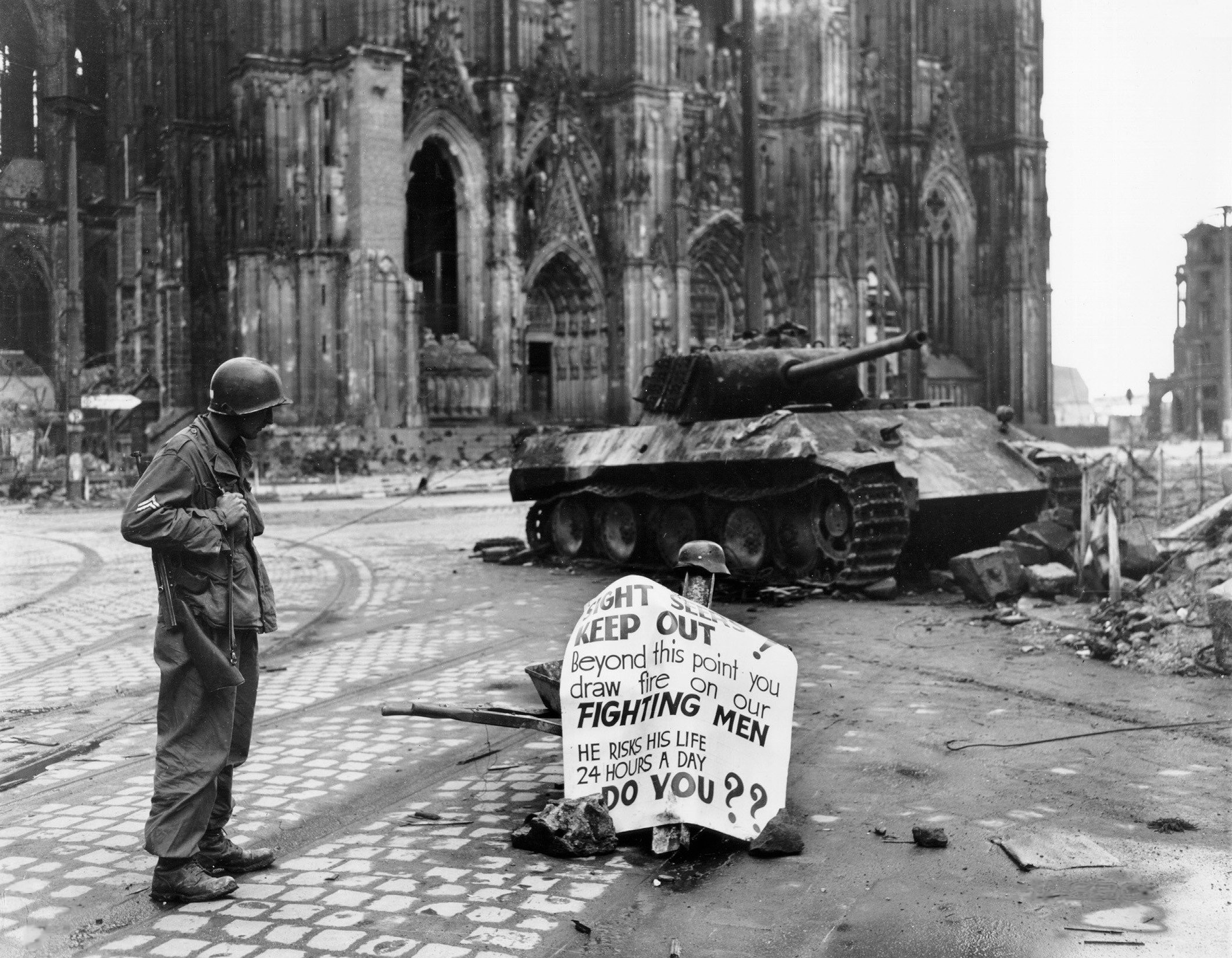 Original caption: Cologne, Germany - Cpl. Luther E. Boger, Concord, N.C., skytrooper, reads a warning sign in the street. This street leads to the Rhine River and is under observation of the Germans who occupy a stronghold there. Cpl. Boger is with the 82nd Airborne Division. 4 April 1945. The German tank is burnt out and the torsion-bars have been destroyed by the immense heat of the fire. Allied troops captured the western part of Cologne on 6th-7th March 1945. The German army still held the eastern shore of the Rhine and attacked the Allies with artillery. The rest of Cologne was captured between 12th and 15th April 1945. Until the 16th April a strip of about 500m along the shore had been declared as a restricted area and the cathedral was just within this zone. Text on sign reads: SIGHT SEERS KEEP OUT! Beyond this point you draw fire on our FIGHTING MEN HE RISKS HIS LIFE 24 HOURS A DAY DO YOU??